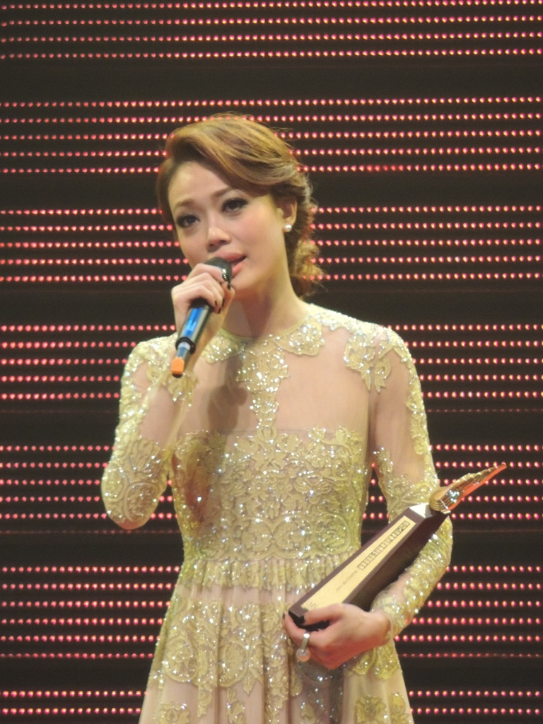 Ultimate Song Chart Awards 2013